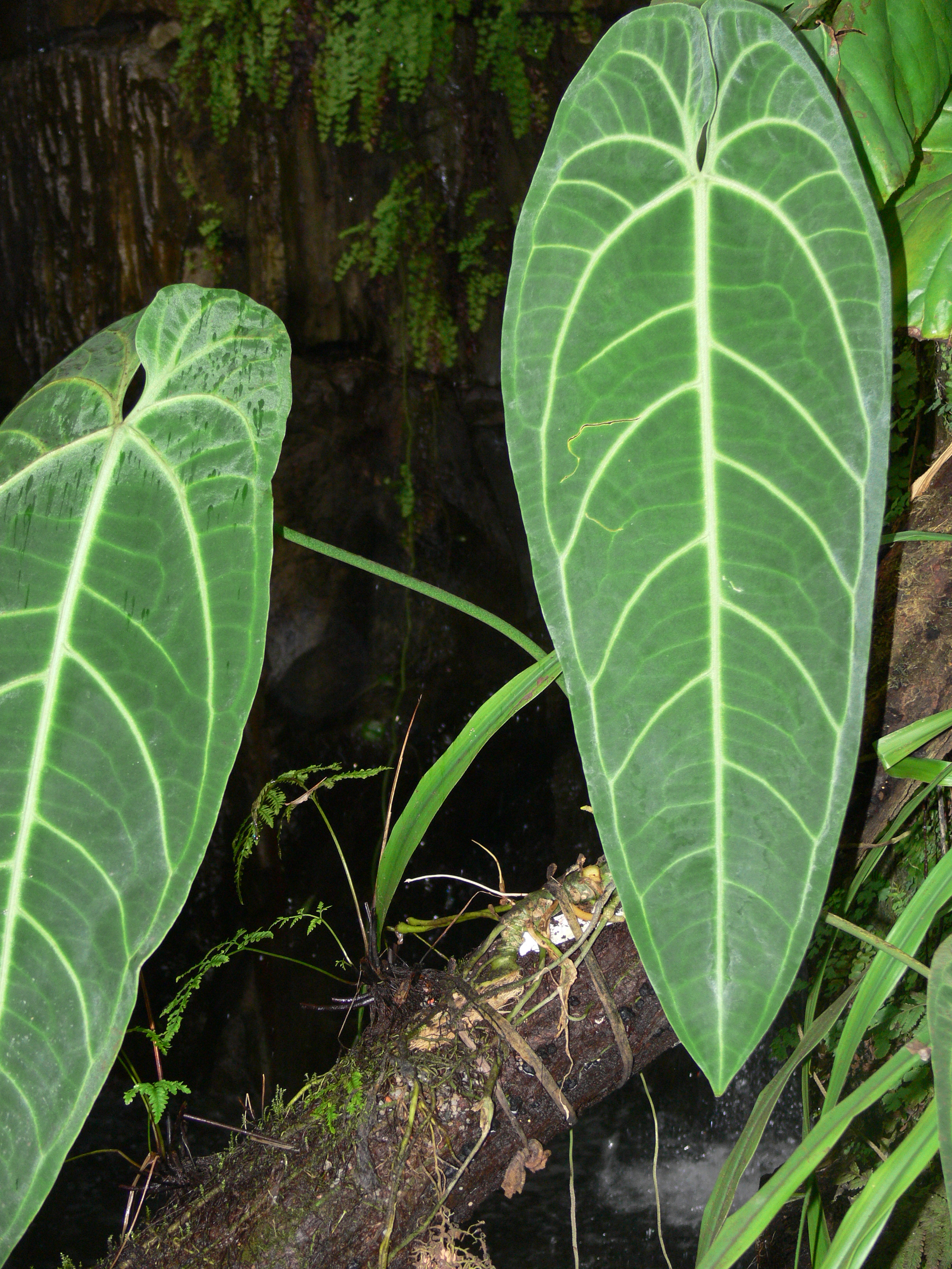 Anthurium waroqueanum in the botanical garden in Troja, Prague, CZ (Fata Morgana greenhouse)